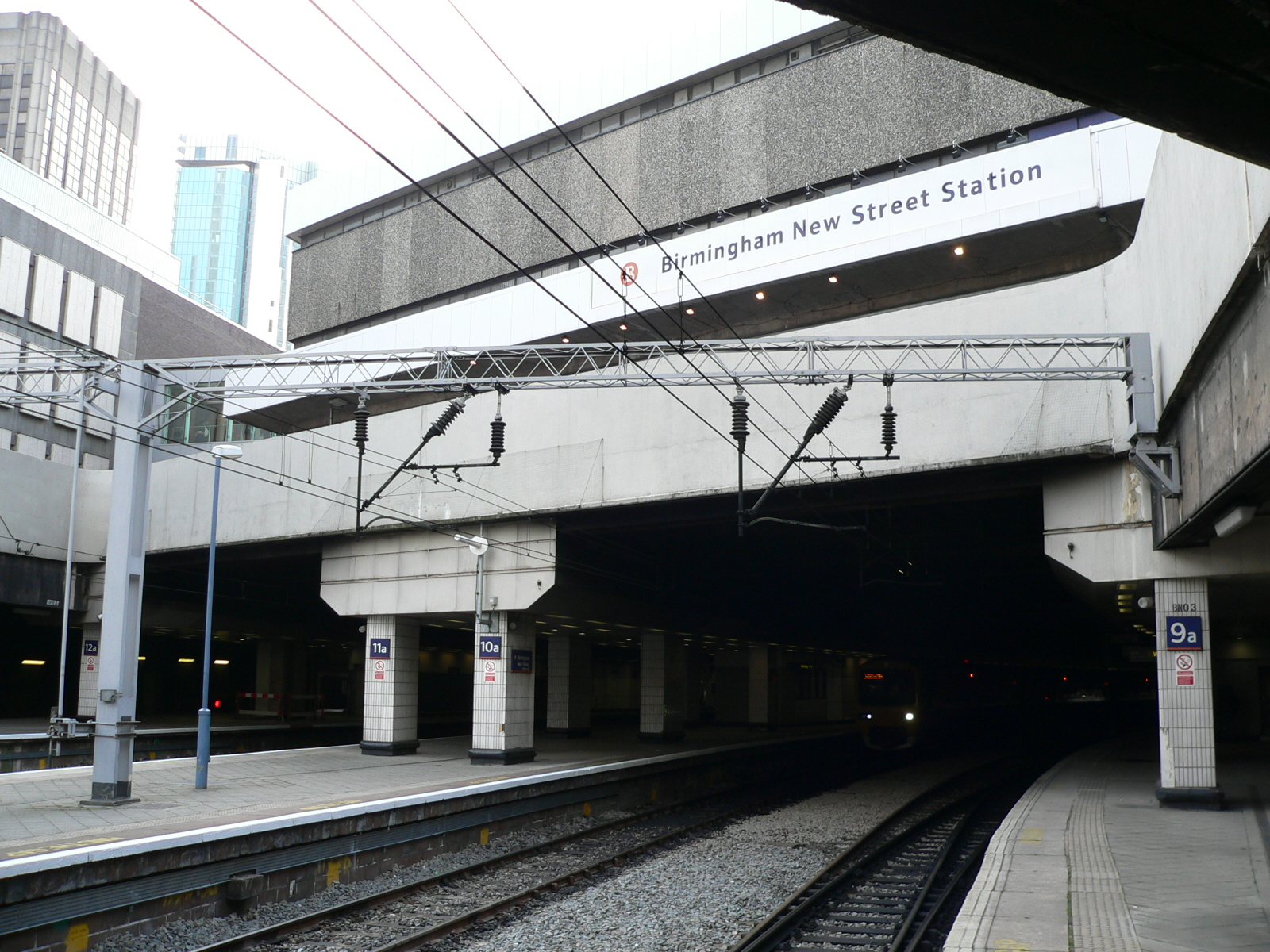 Birmingham New Street railway station, viewed from the eastern ('a') end of platform 9. The 1967 concrete structure presents a particularly unapealing impression of England's second city.